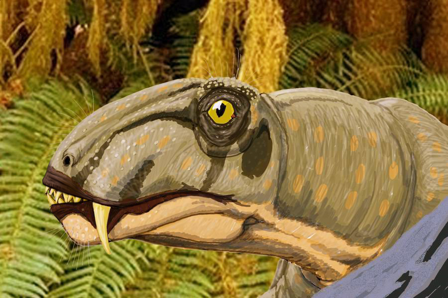 Stenocybus, my own work